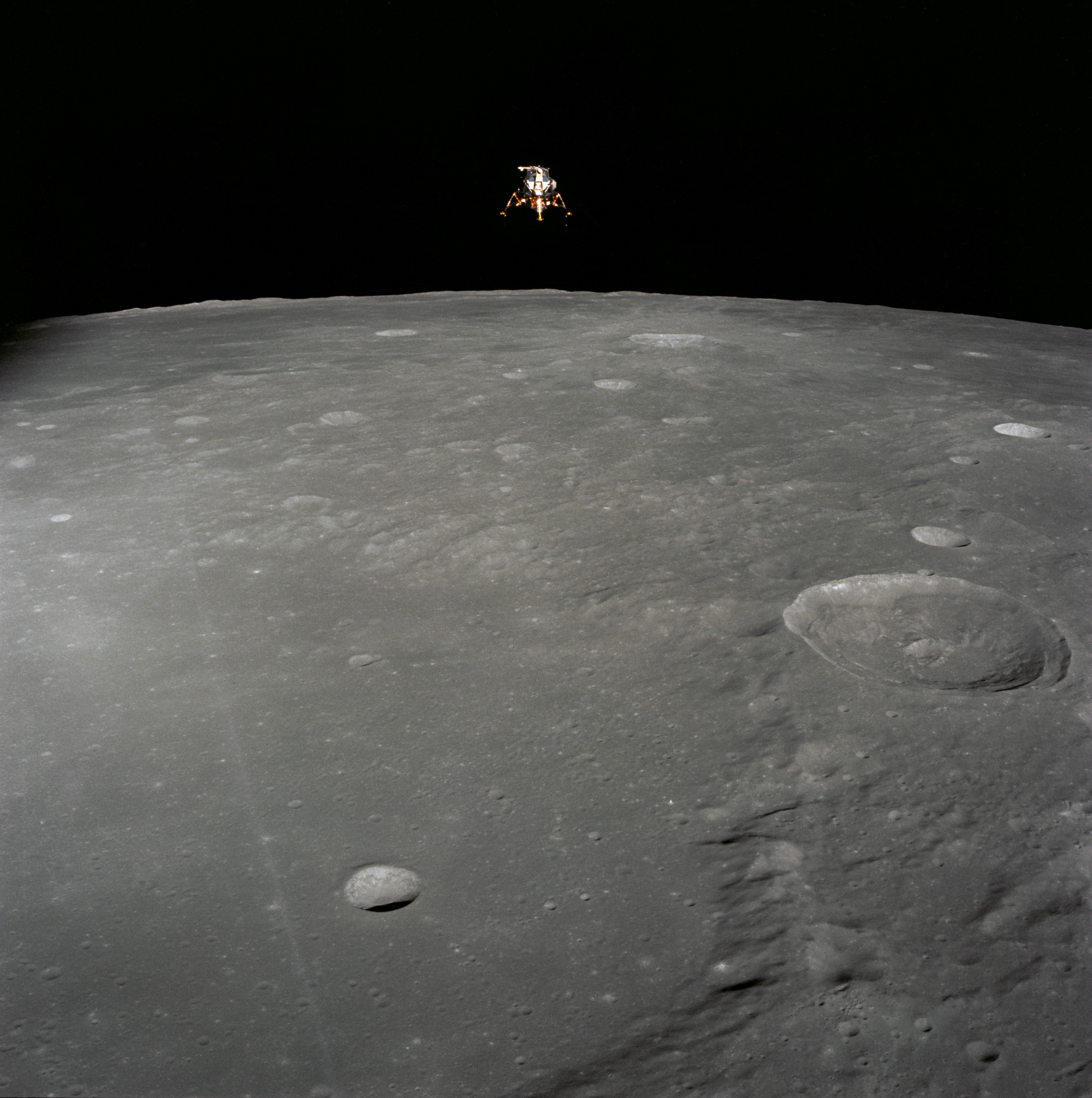 The Apollo 12 lunar module Intrepid prior to descent, on November 19, 1969. The coordinates of the center of the lunar surface shown in picture are 4.5°W longitude and 7°S latitude. The view is towards the west and slightly north. The small distinct crater in the bottom left area is Ammonius; it is located within the huge Ptolemaeus crater, which is hard to distinguish here but consists of the smooth area which takes up much of the bottom left of the image, and whose partial wall can be seen to the right of Ammonius. The large crater at the right-hand side about halfway between top and bottom is Herschel. Just above it is the small Herschel C. Further up and to the right, near the right edge of the image, is Mösting A, which appears bright here. The smaller crater just to the left of a line between Herschel C and Mösting A is Flammarion B. Near the horizon and diagonally right and down from the lunar module is Lalande crater; diagonally left and down from the lunar module is the somewhat smaller Lalande A. Further towards the foreground and slightly to the left of Lalande is the smaller Lalande C.